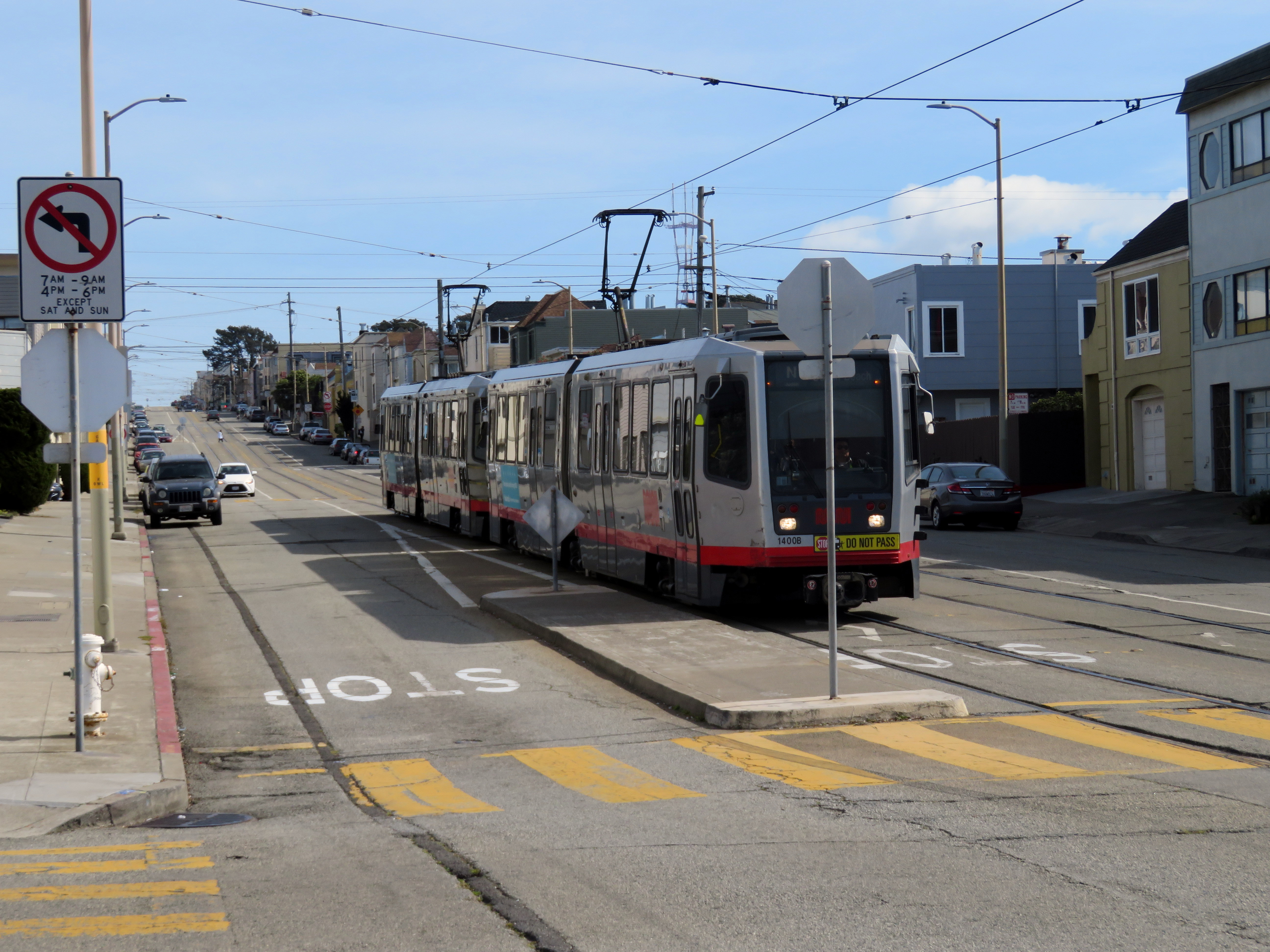 Outbound train at Judah and 43rd Avenue station in February 2018